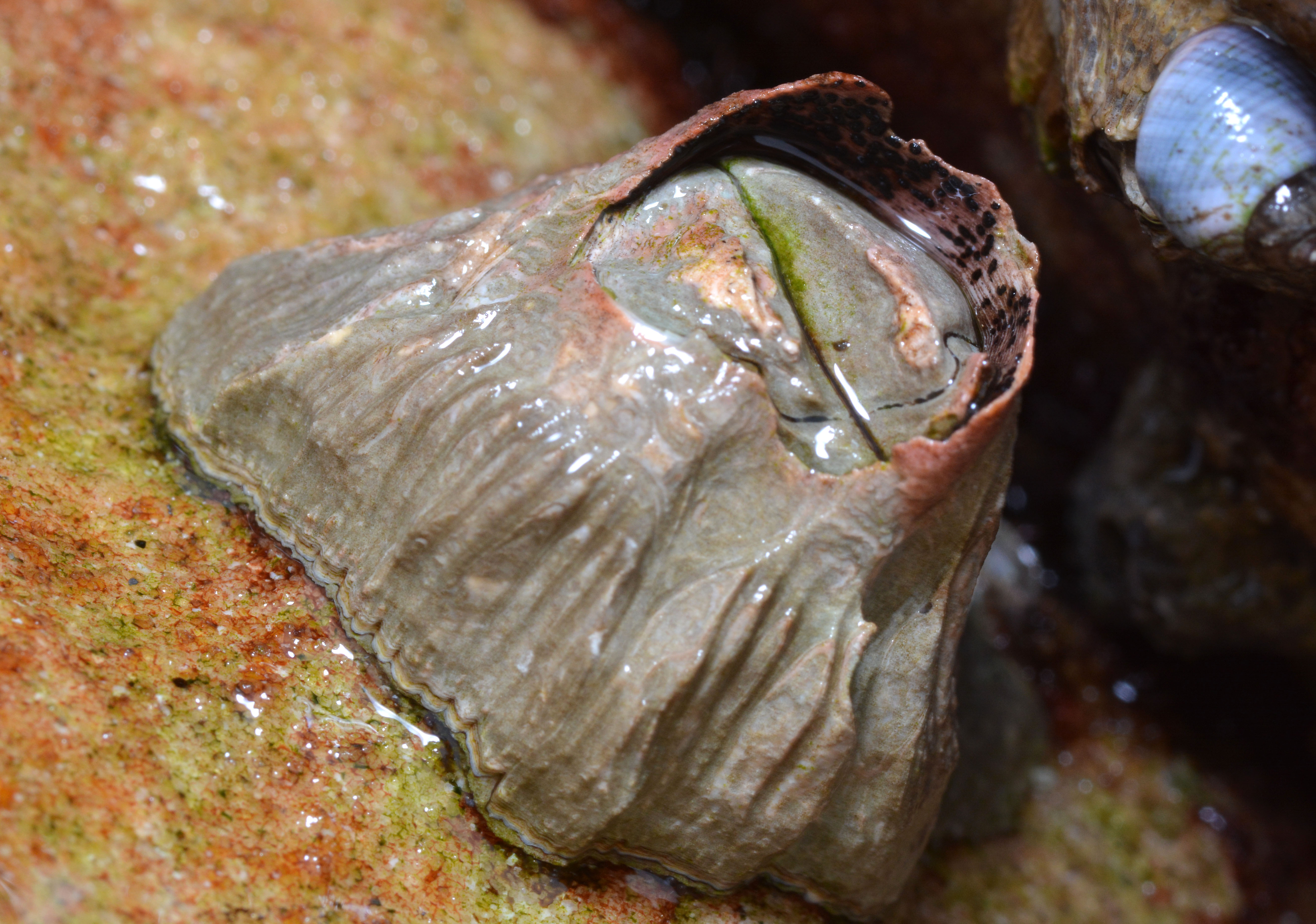 Tesseropora rosea (Rosy barnacle) Barnacles are crustaceans - like shrimps and crabs - but they don't move about once settled. They disperse as larvae then attach to something solid for their adult lives. They are protected by hard trap-doors when the tide is out. Once immersed, the doors open and their feeding arms come out. Shark Point